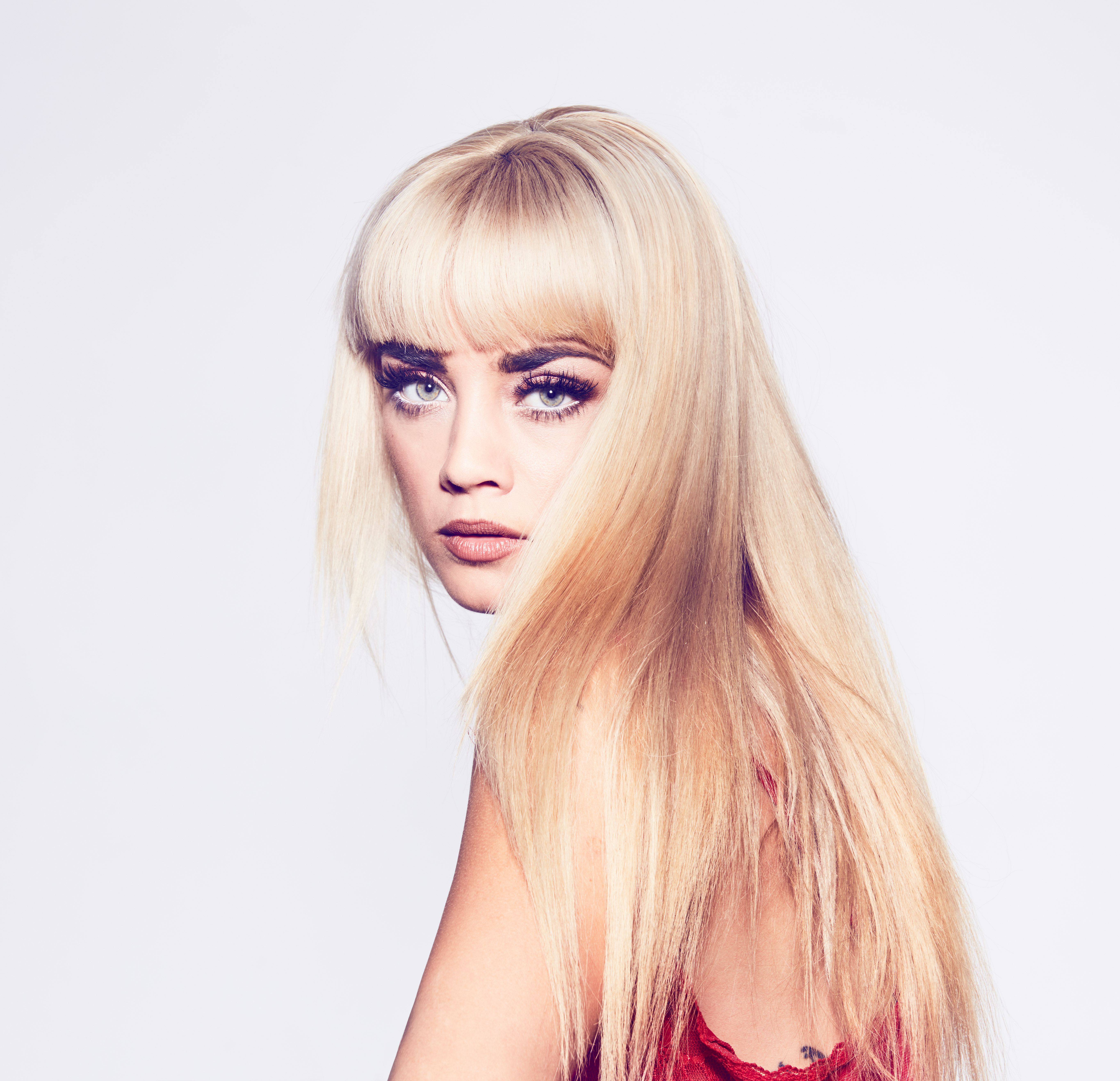 Jasmine Kara